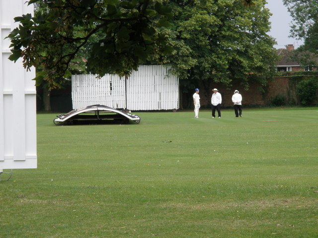 The covers are on